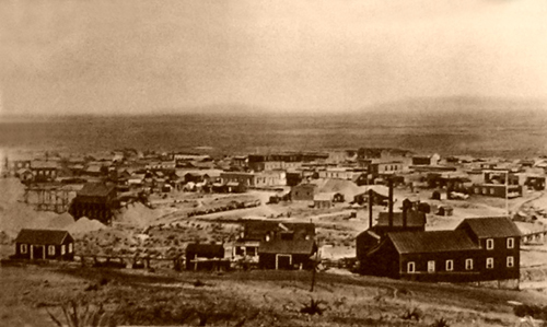 Tombstone, Arizona, in 1881.Clearly visible at the photo center is the Grand Hotel (the large black and white structure at center-left), which burned in the great fire of 1882. The view is from south of Tombstone, looking north, from the Toughnut Mine.